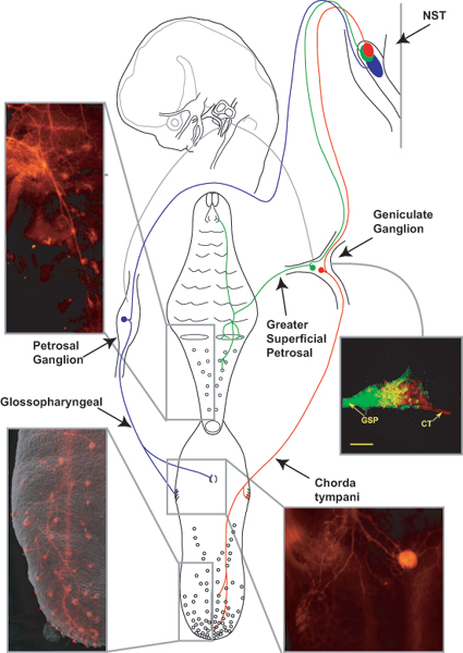 Figure legend in original article (CC-by): "An overview of the basic neuroanatomy of the gustatory system. A cartoon of geniculate neurons innervating the tongue (red) and the palate (green) and petrosal neurons innervating the tongue (blue) are shown innervating peripheral taste bud containing regions and the rostral nucleus of the solitary tract (NST). On the tongue, taste buds are located in fungiform papillae, foliate papillae, and circumvallate papillae (CV). The palate has taste buds on the nasoincisor papilla/ducts (NID) and on the soft palate (circles). Photomicrographs of innervation patterns in the tongue and in the palate at E16.5 are shown next to the appropriate regions. An overlay image of two geniculate ganglia (E14.5) is also shown; one ganglia following DiI-label to the palate was pseudo-colored green, the other following DiI-labeling of the tongue remains red. These two ganglia images were anatomically aligned and superimposed using Adobe Photoshop."